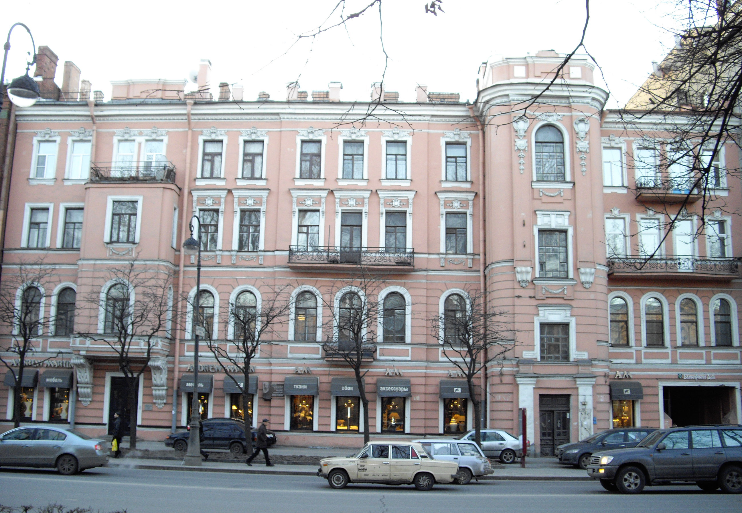 24, Kamennoostrovsky av.), Saint-Petersburg, Russia (architects V. A. Vladychansky, 1901, and Hyppolit Pretreaus, 1911).